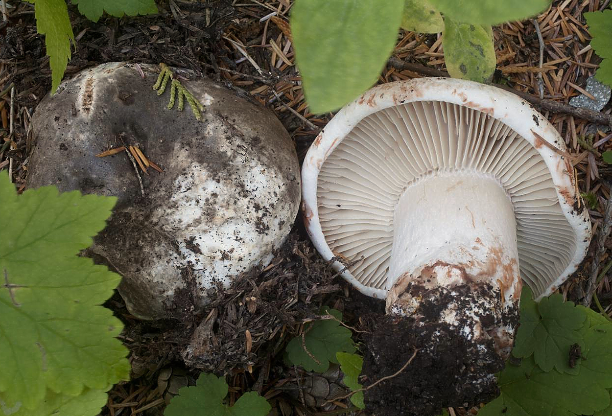 Russula nigricans (Bull.) Fr. Image location: Pend Oreille Co., Washington, USA Recognized by sight For more information about this, see the observation page at Mushroom Observer.